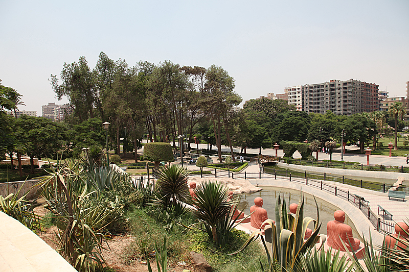 Inside the Japanese Garden, Helwan, Egypt